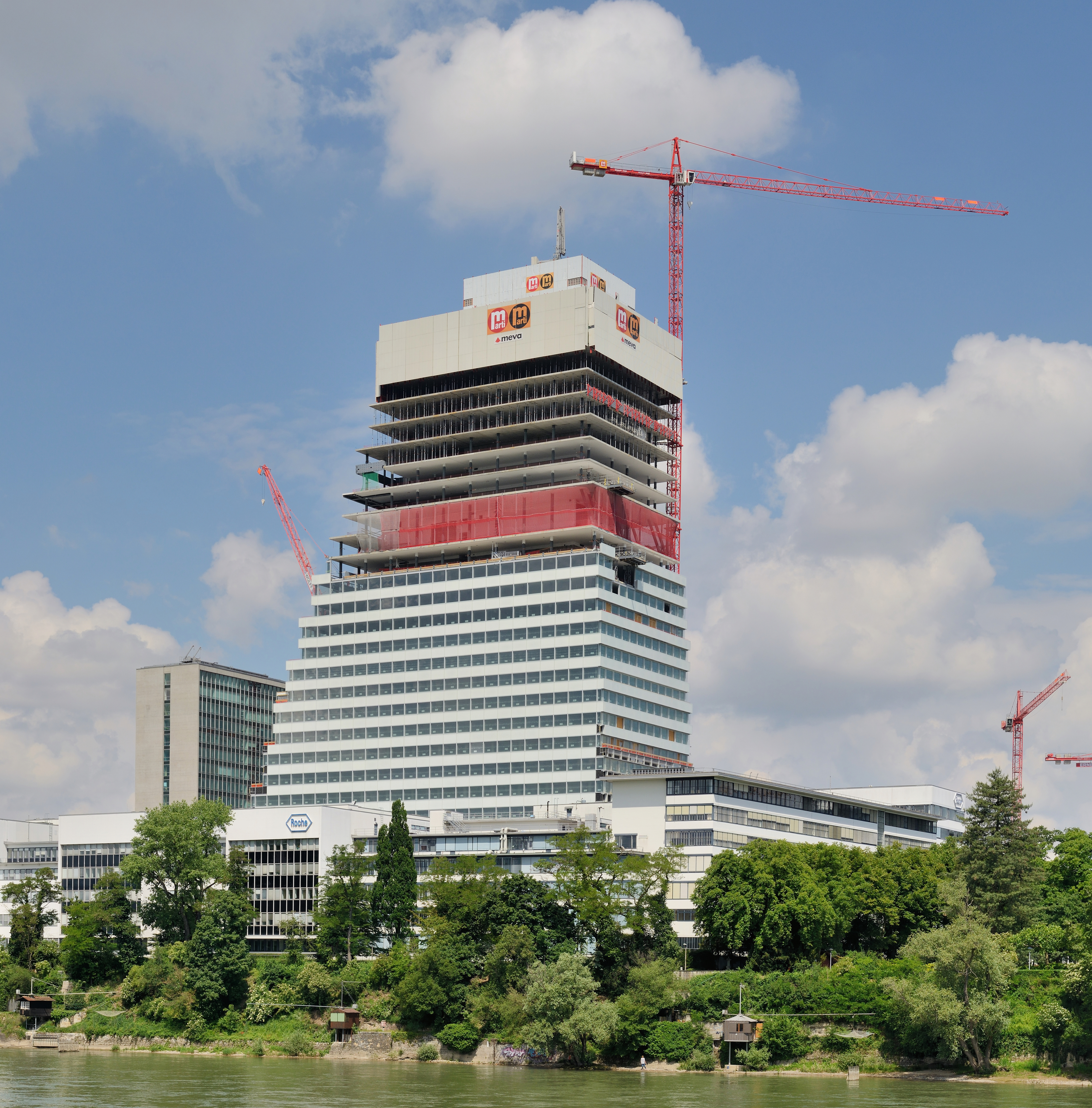 Basel: Roche Tower during construction at 29th may 2014